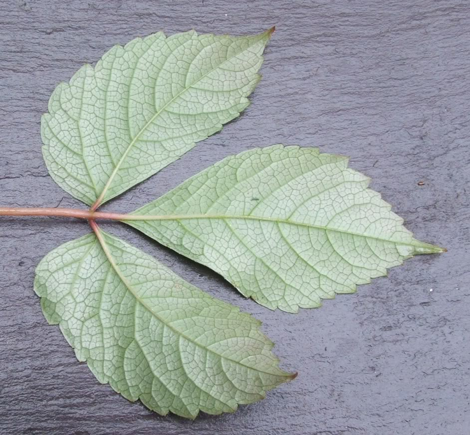 Parthenocissus semicordata